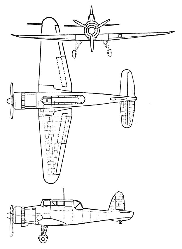 Blackburn Skua 3-view drawing from L'Aerophile November 1939